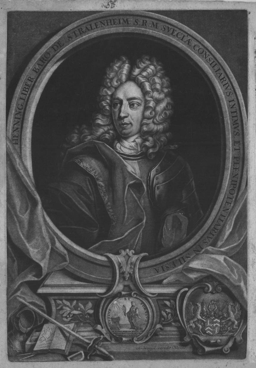 Portrait of Henning von Stralenheim; Mezzotint